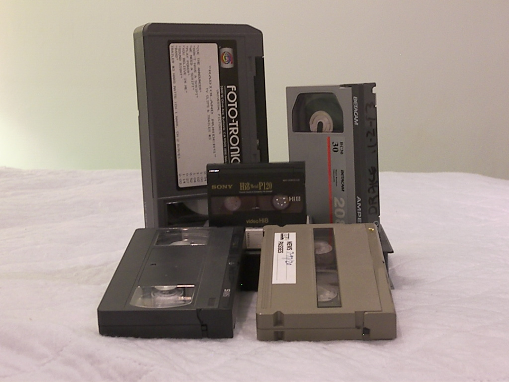 Five different videotape formats, used in electronic news gatherings in the 1990s. Top left is a UMatic cassette. Top right is a Betacam cassette. Bottom left is an SVHS cassette. Bottom right is an MII cassette. In the center is Hi8 cassette.